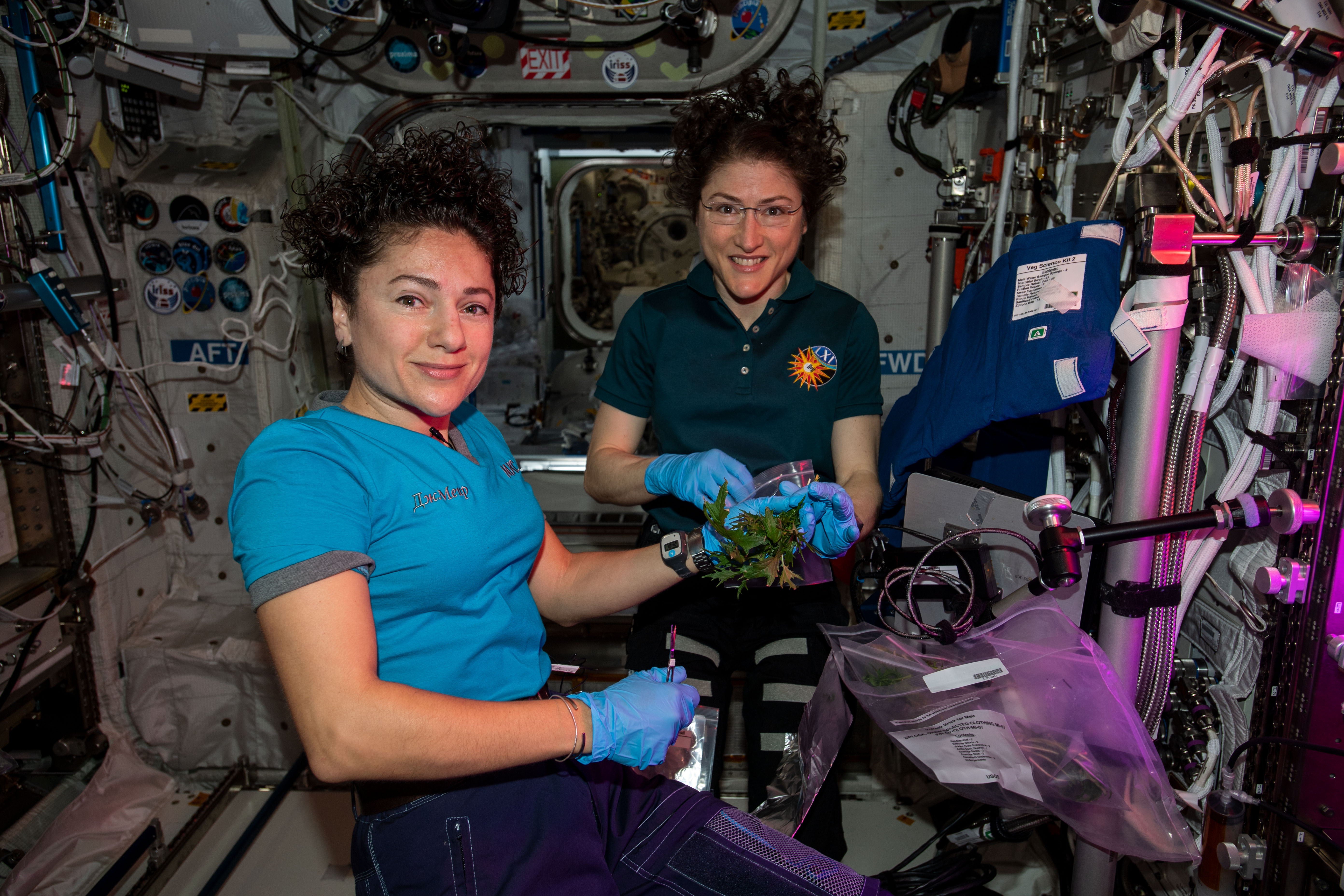 NASA astronauts (from left) Jessica Meir and Christina Koch harvest a crop of Mizuna mustard greens grown inside the International Space Station's Veggie botany facility located in the Columbus laboratory module.